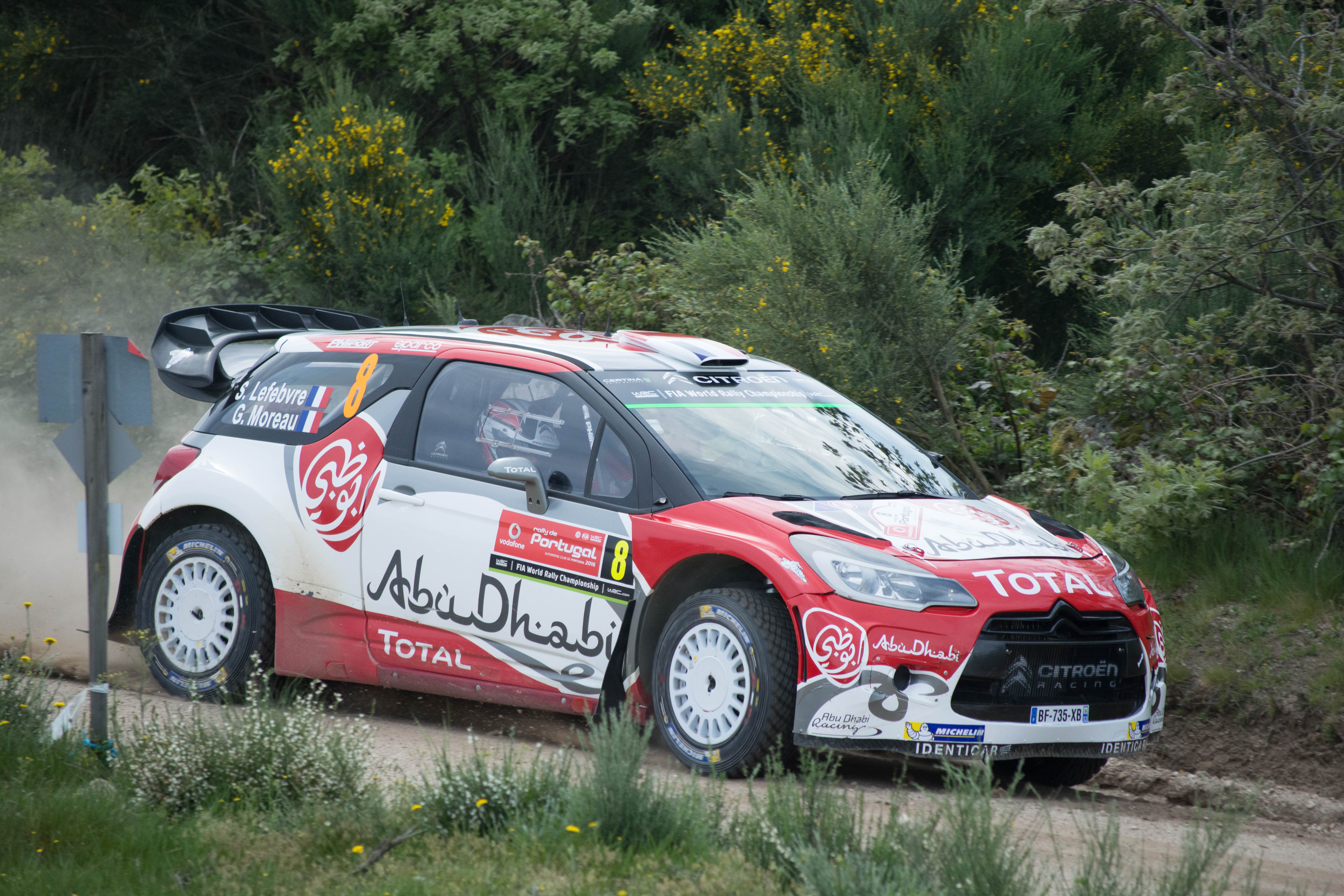 Rally of Portugal 2016. Section of "Baião", on the first pass